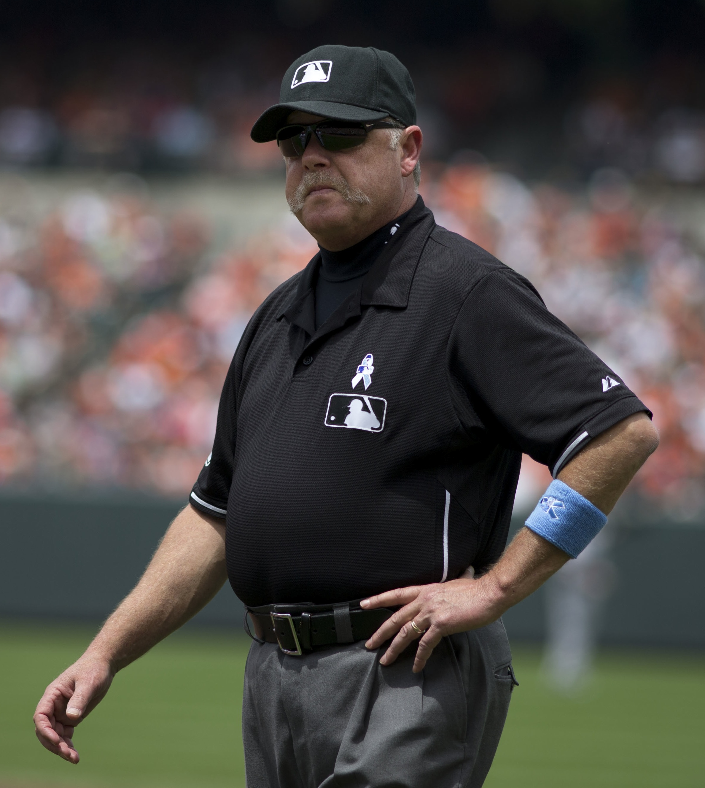 MLB Umpire Jim Joyce – Boston Red Sox at Baltimore Orioles June 16, 2013